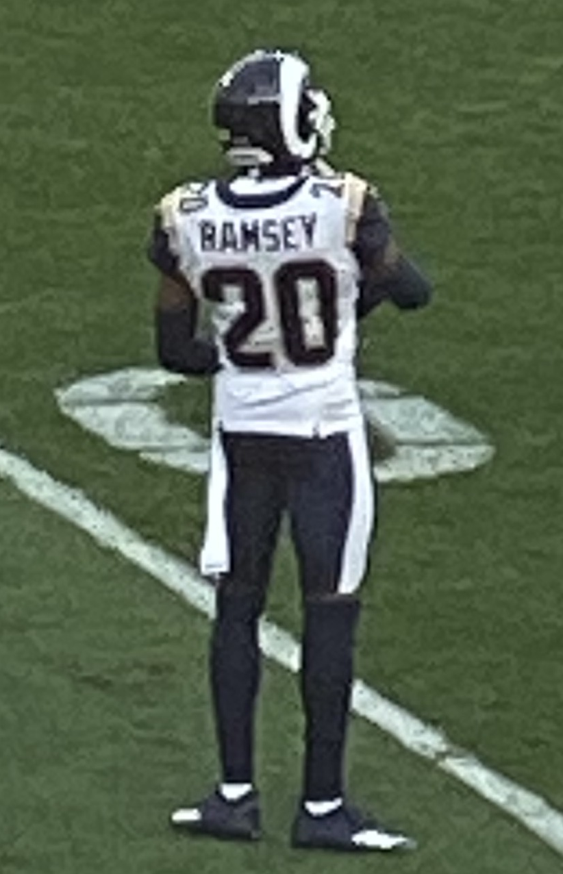 Steelers vs Rams